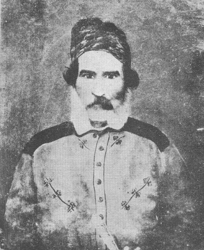 Portrait of Angel Chacho Peñaloza, an Argentine military.